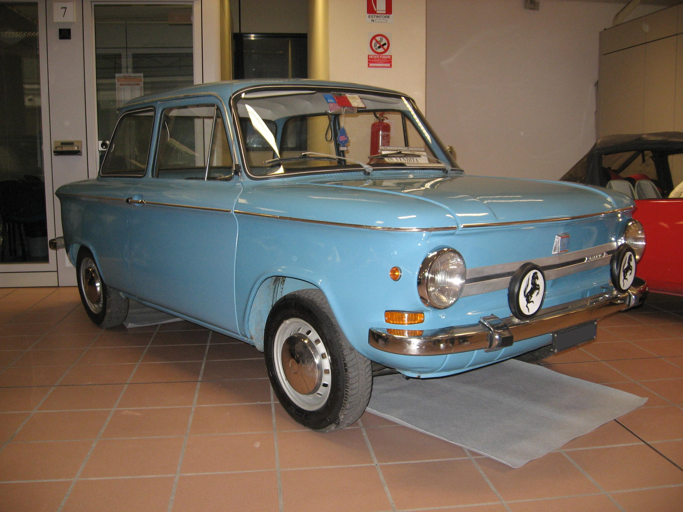 Subject: NSU Prinz IV Author:Luc106 Date:18 march 2007 City/Country: Forlì (Italy) Event: Old Time Show I release all rights in the public domain.